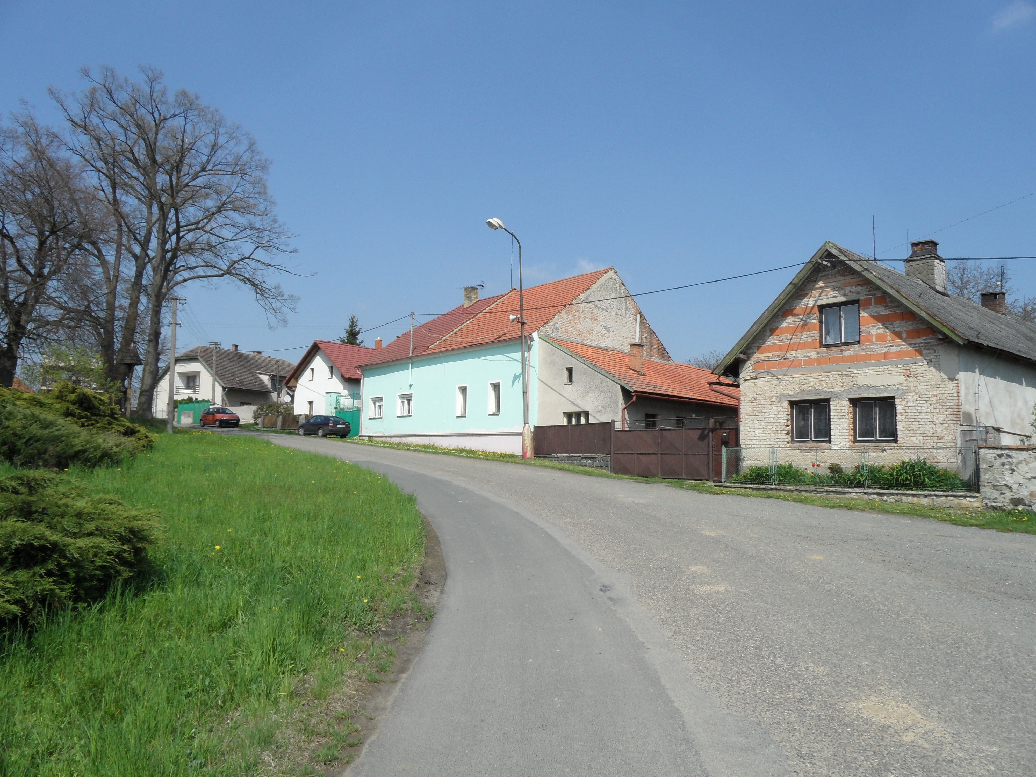 Korotice A. Houses along Village Square, Kutná Hora District, the Czech Republic.